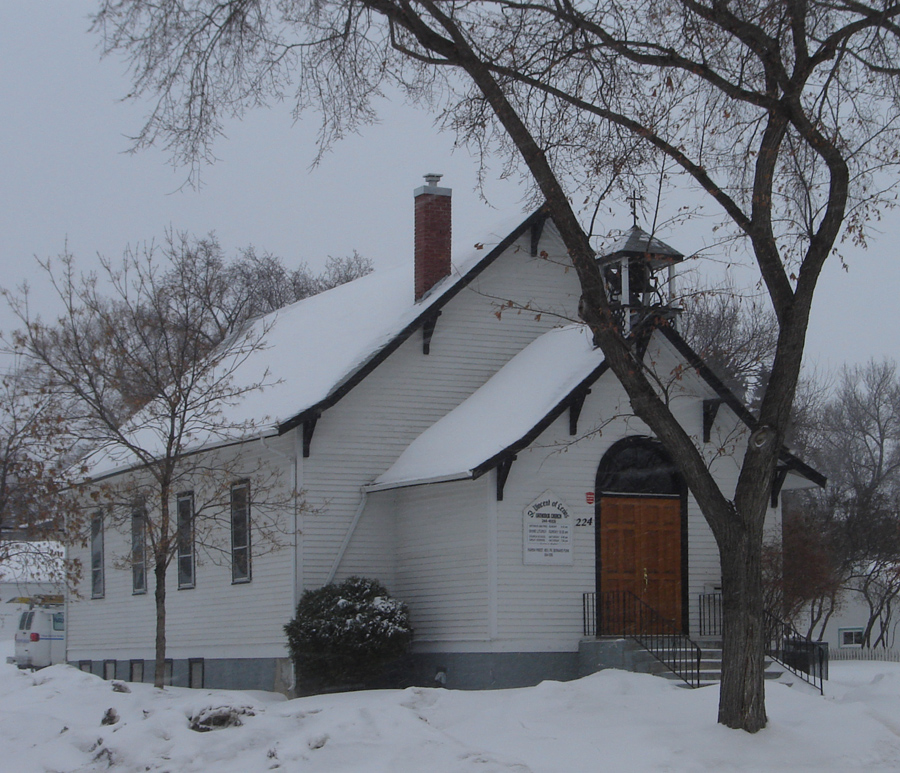 St Vincent Of Lerins Orthodox Church Caswell Hill, Saskatoon, Saskatchewan, Core Neighbourhoods SDA, Saskatoon, Saskatchewan, Canada